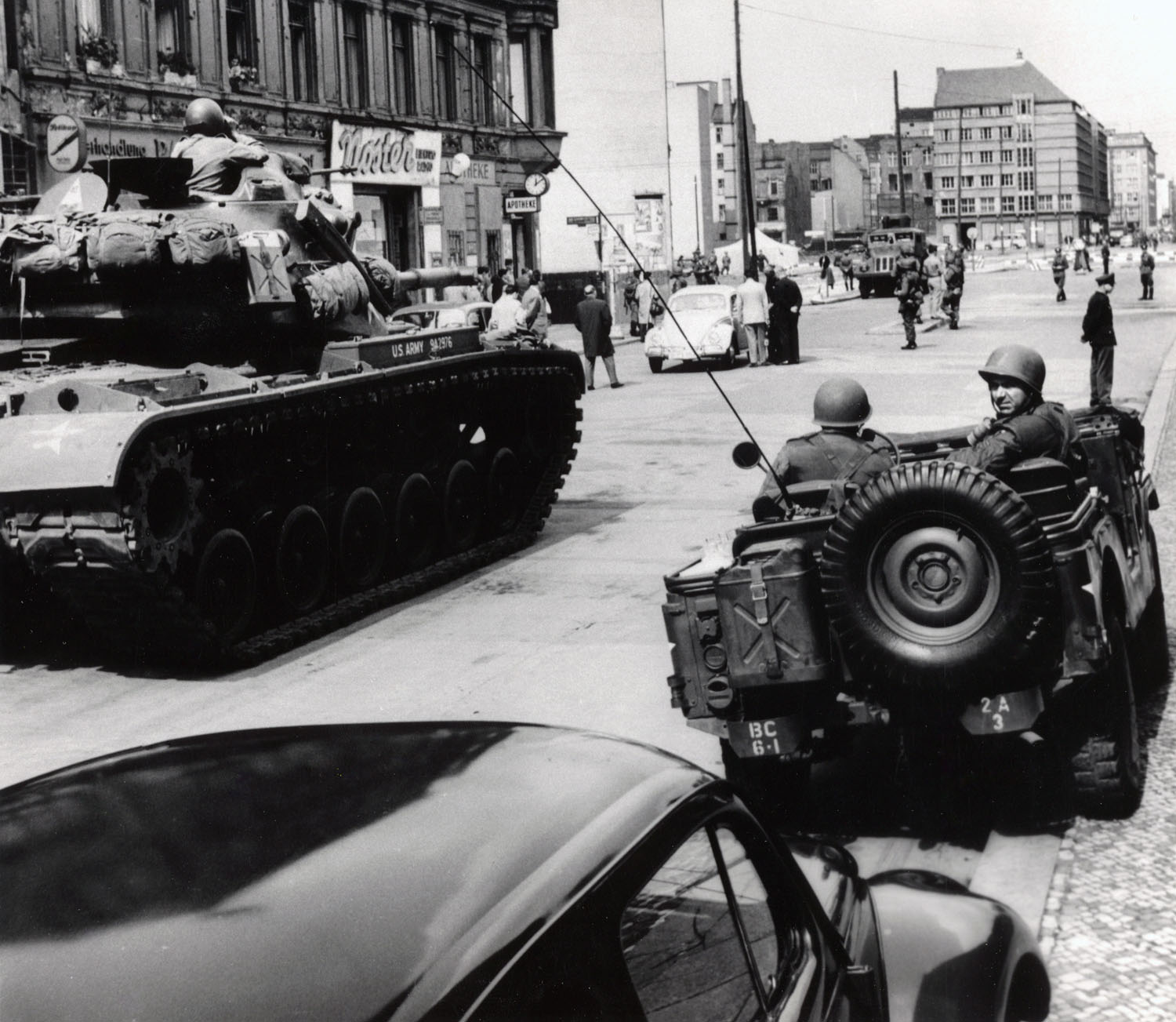 Soldiers from the U.S. Army Berlin Command face off against police from the former East Germany during one of several standoffs at Checkpoint Charlie in 1961. On several occasions that year, a U.S. quick reaction force of tanks and infantry Soldiers stood watch as armed military policemen escorted U.S. personnel across the border into East Berlin. (U.S. Army Photo)